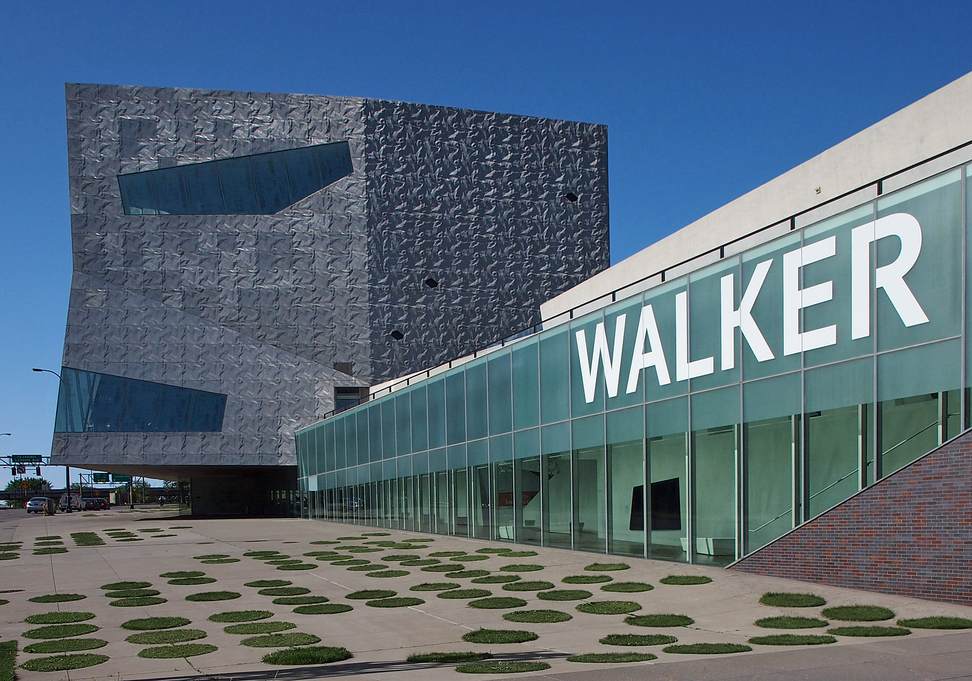 Walker Art Center, 1750 Hennepin Ave, Minneapolis, Minnesota, USA. Viewed from the northeast.